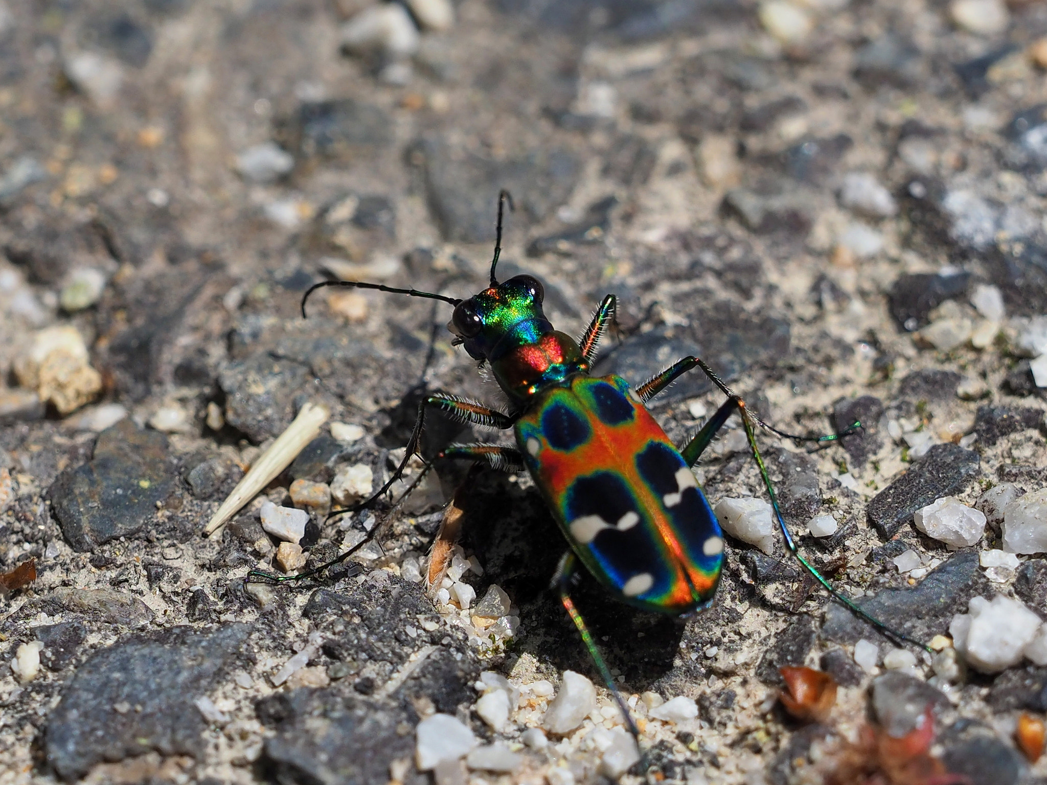 500px provided description: Cicindela japonica (Japanese tiger beetle, ?????) at Ritto Nature Center (?????????) (via Flickr [#wildlife ,#bugs ,#?? ,#Flickr ,#??? ,#???]